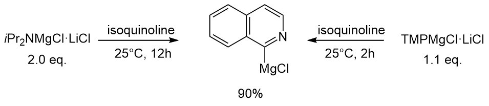 Example Turbo Hauser Base Rktn 4